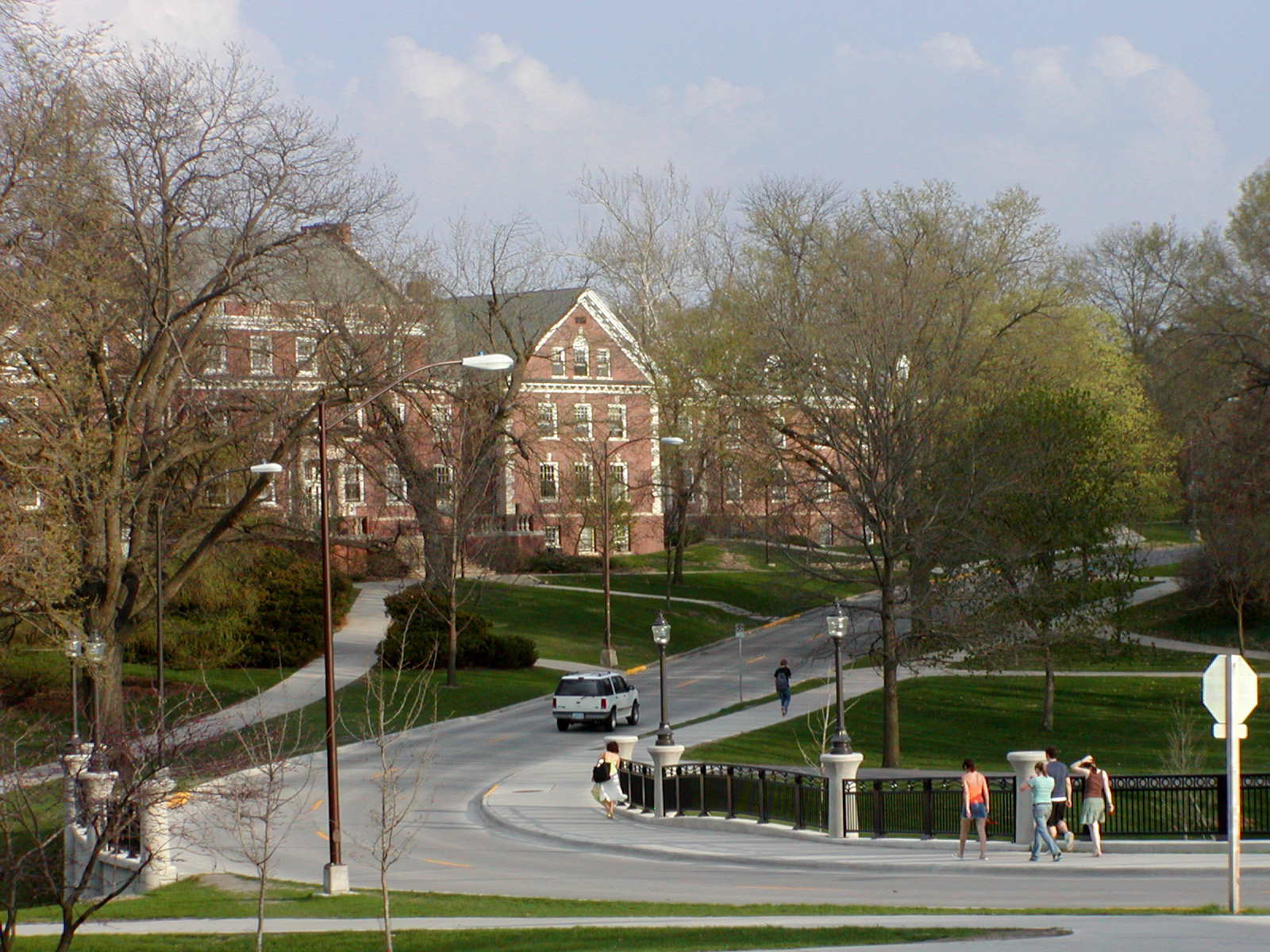 Roberts Residence Hall, Iowa State University. I'm the photographer of this photo.